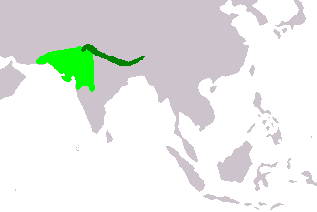 Map showing distribution of Pycnonotus leucotis (light green) and Pycnonotus leucogenys (dark green). based on Rasmussen and Anderton (2005) Birds of South Asia: The Ripley Guide. See also File:Pycnonotus leucotis leucogenys map editation 1.png for a more complete map of P. leucotis.